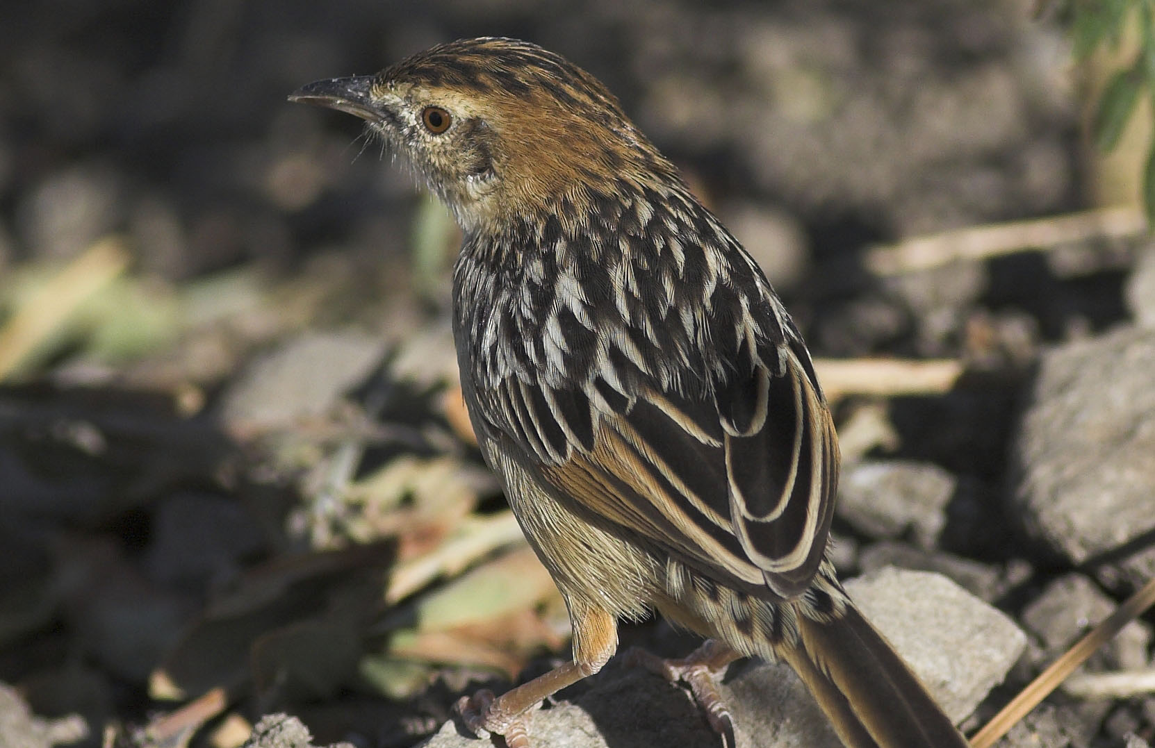 Stout Cisticola